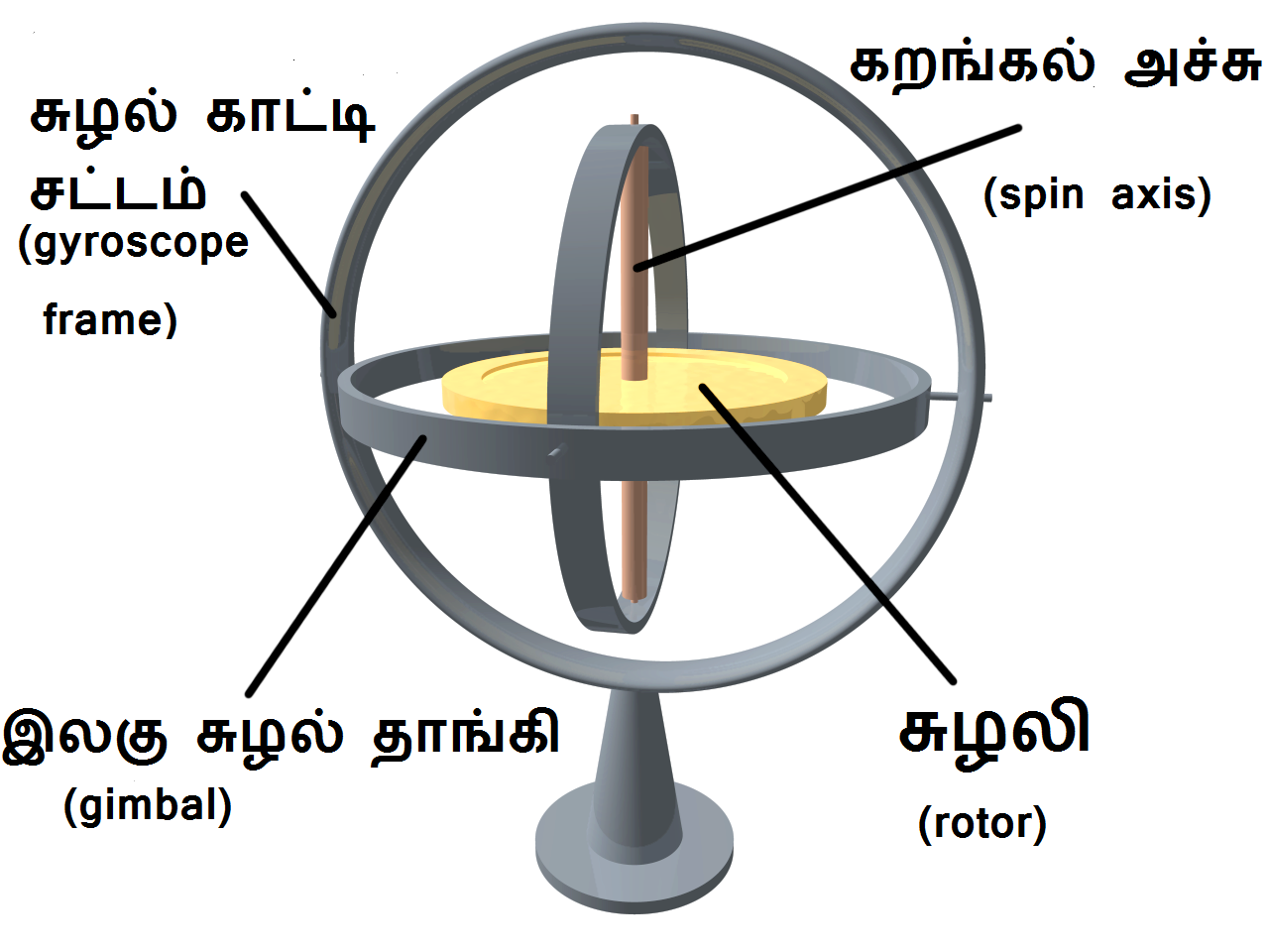 A 3D gyroscope rendered in POV-Ray.